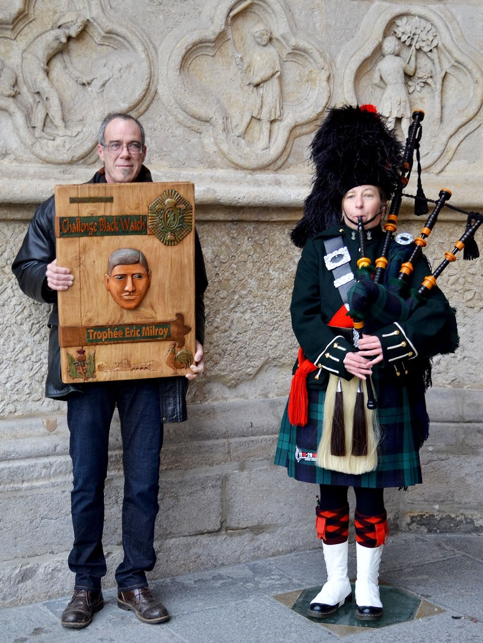 10/02/2017 Cathédrale ans Stade Charassain Amiens (Somme) The 'Milroy's Challenge Black Watch Trophy' comes to France Amiens in 2017, for the first veterans and leisure rugby tournament among a scottish 3 days remembrance (10-12 february 2017) match between Scotland, Belgium and France teams every year, either in France or Scotland. In 2018, the tournament had been organized by Howe of Fife RFC to Cupar - Duffus Park stadium. The trophy was realized by Christian Raoult, it represents Eric Milroy's face of the 8eme Black Watch battalion. At its base represents the french "Coq" Français and the scottish thistle linked between them by the bridge time which is in fact the famous Eilean Donan Castle. Pictured: Christian Raoult trophy's designer.